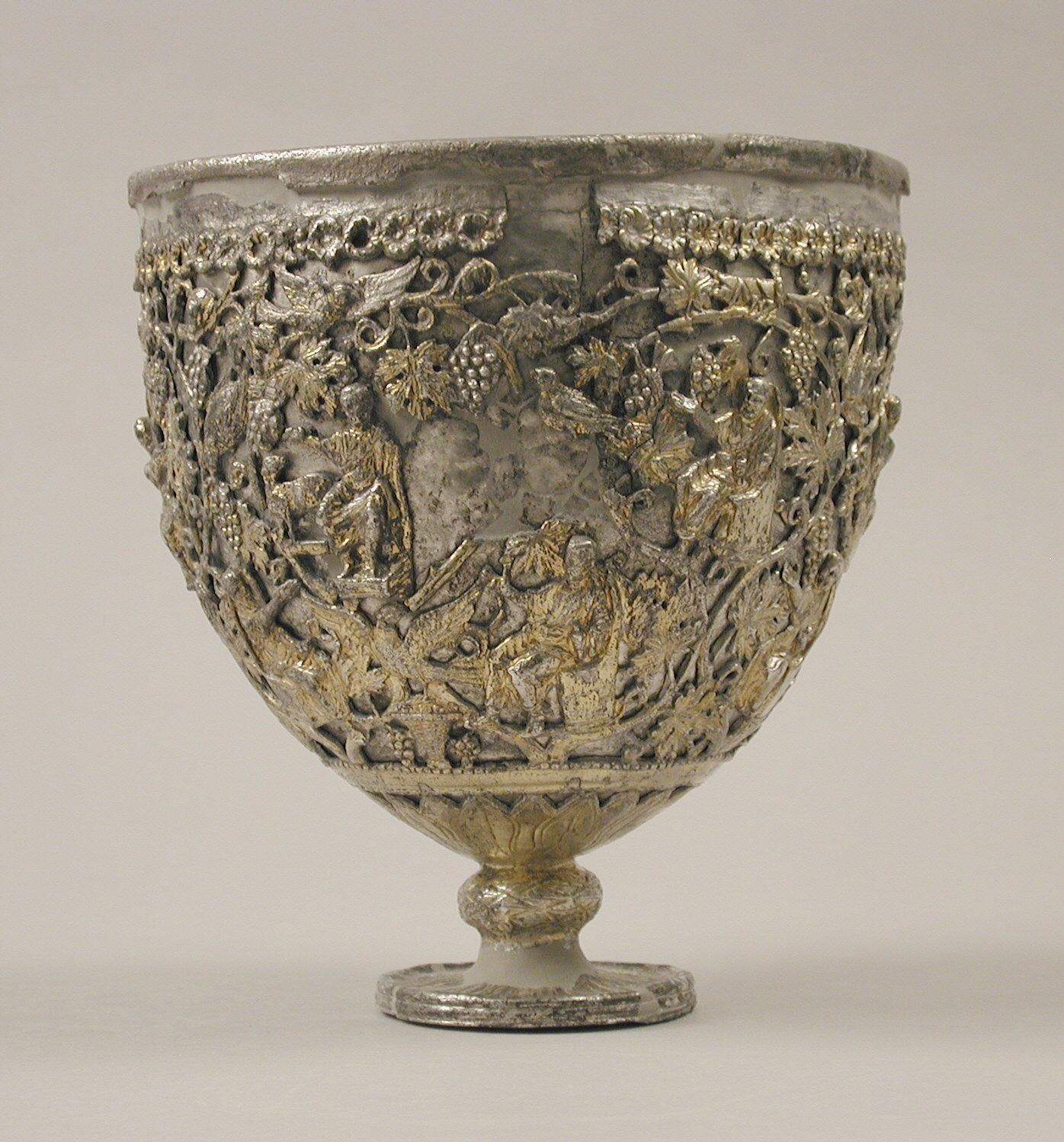 Byzantine; Chalice; Metalwork-Silver